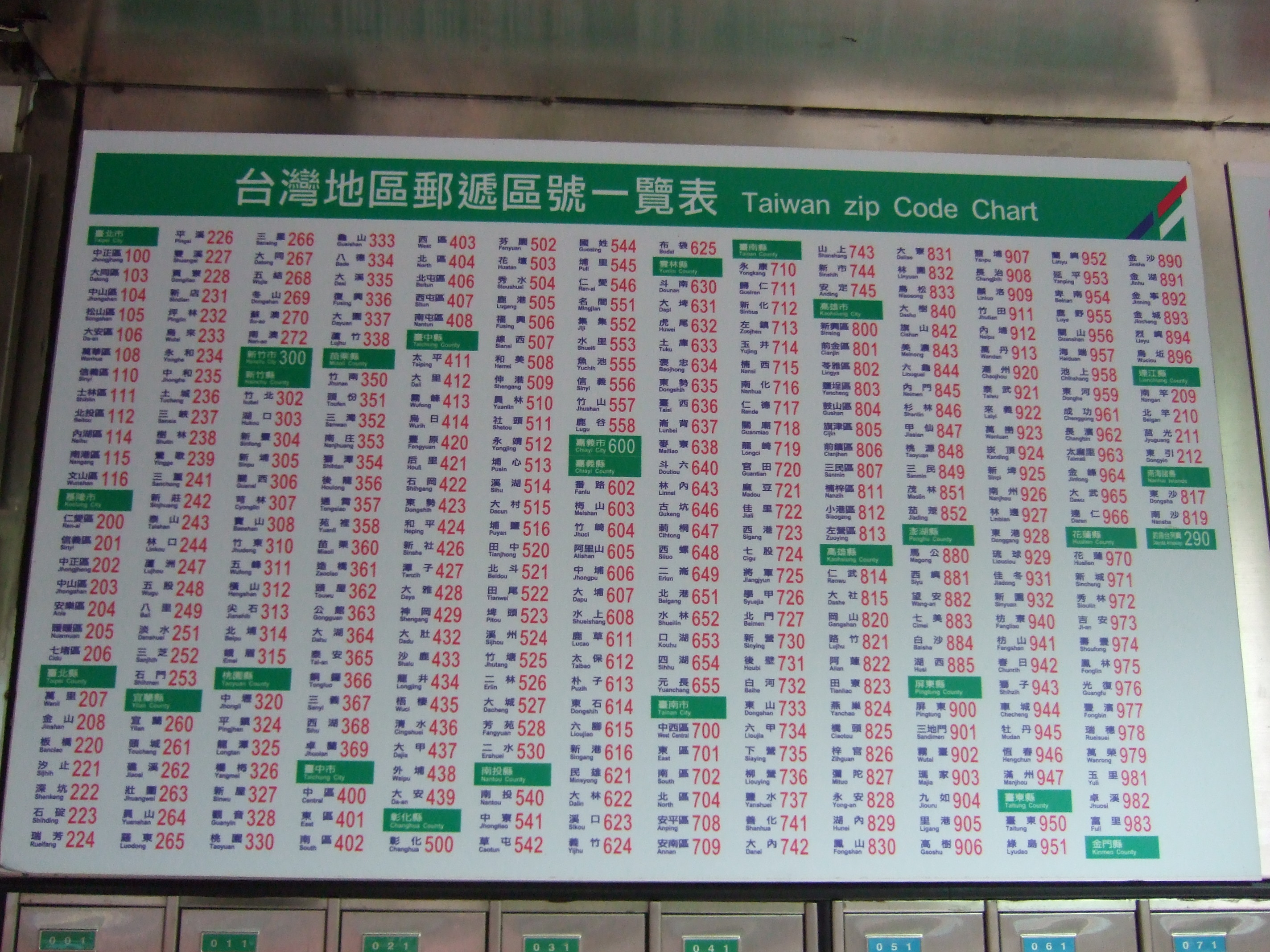 Current Taiwan Area Postal Code Chart, posted out of NTU Post Office.